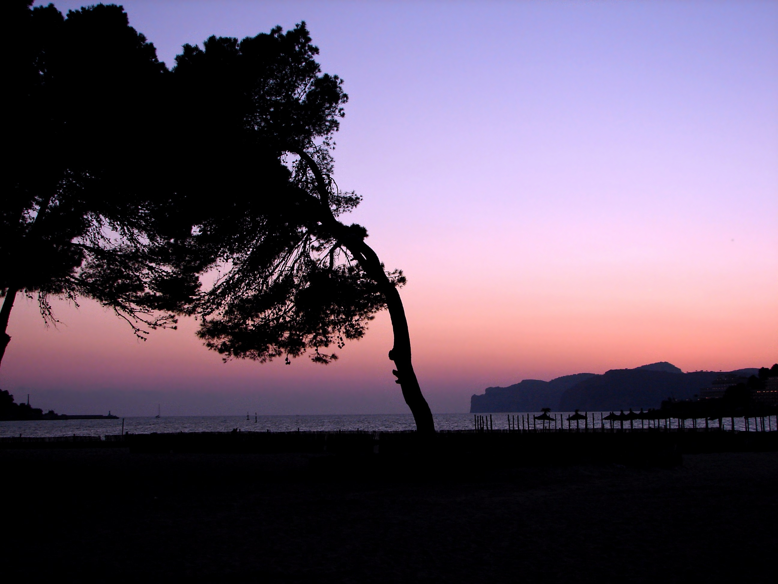 Sunset on the beach. Santa Ponça, Mallorca, Spain.